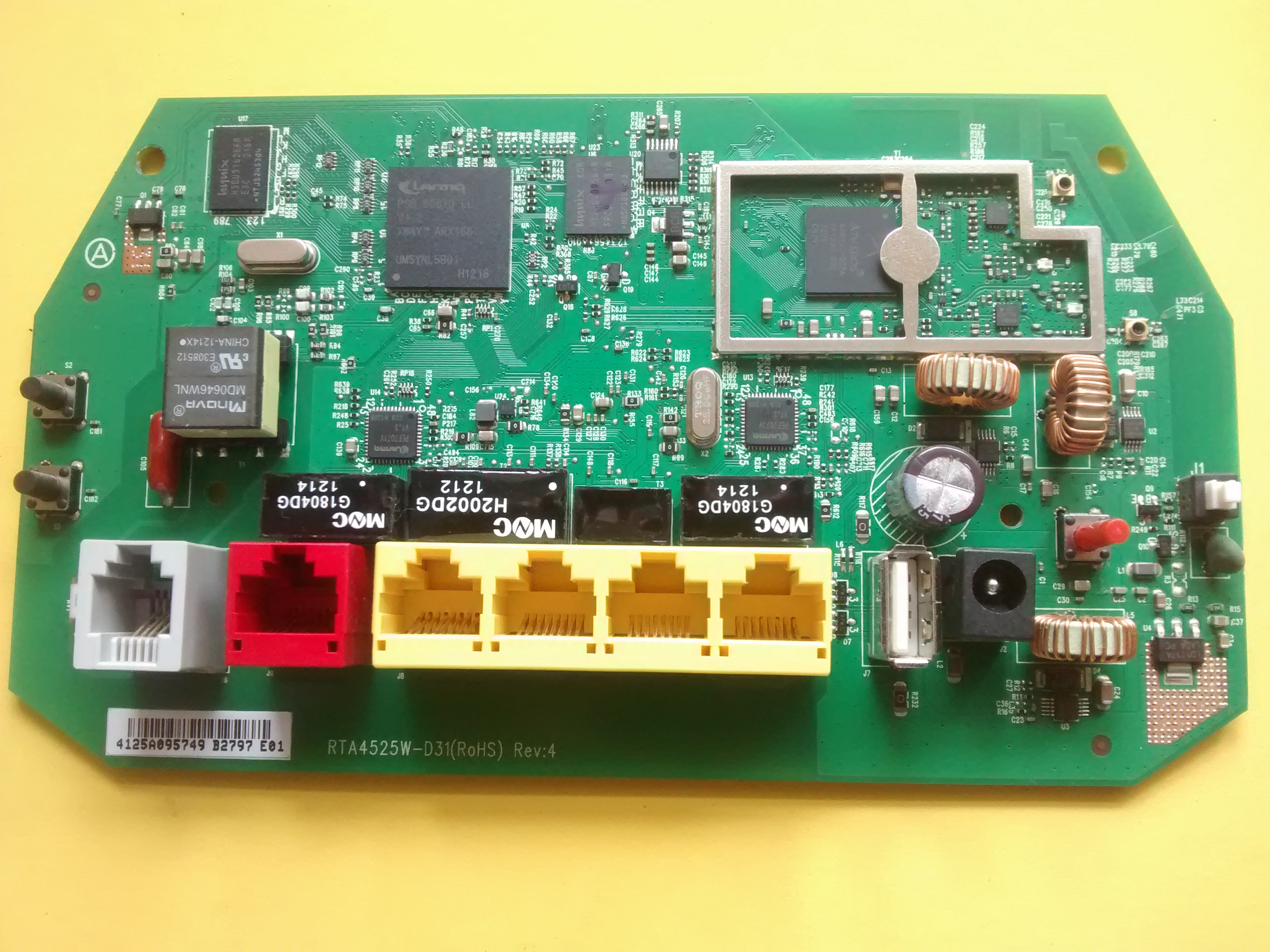 A picture of the rear of the circuit board from a BT Home Hub 3.0 Type A, showing the SoC, WiFi chipset and connectors for various cables and peripherals.